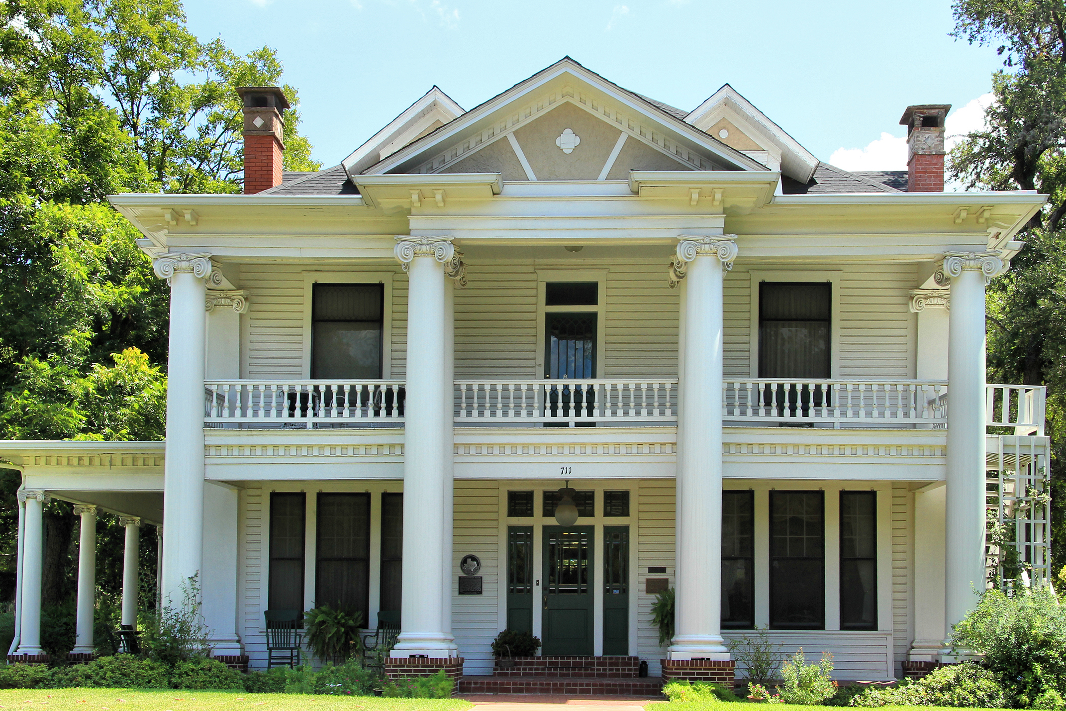 The Rylander-Kyle House in San Marcos, Texas, United States. The building was listed on the National Register of Historic Places on August 26, 1983.